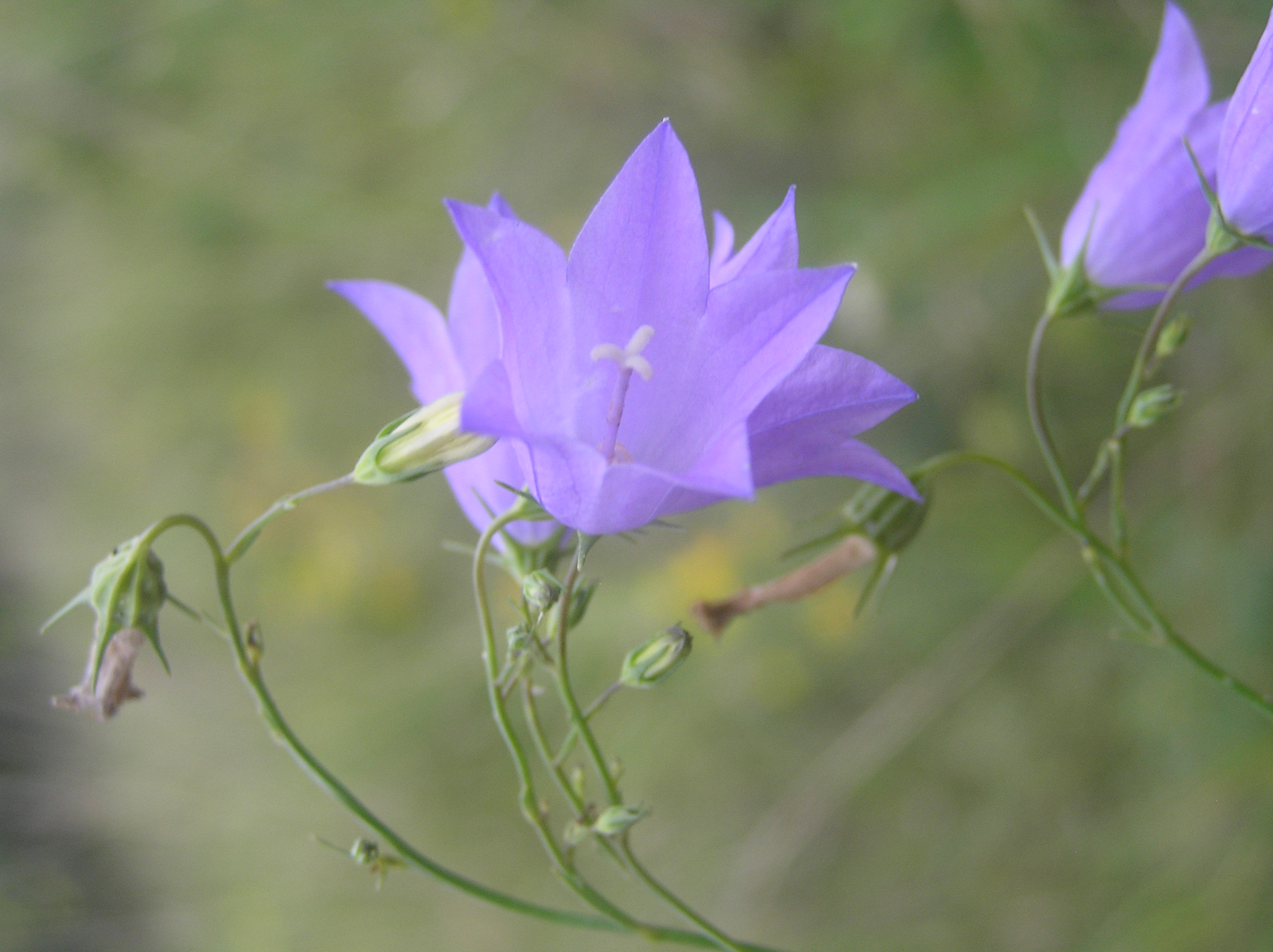 Campanula moravica, near Velké Pavlovice, Southern Moravia, Czech Republic